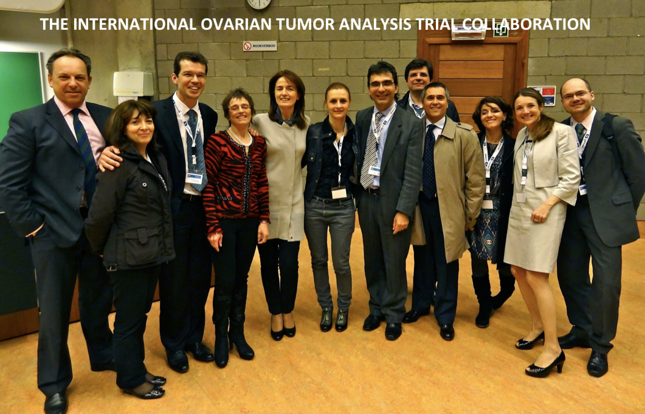 IOTA TEAM